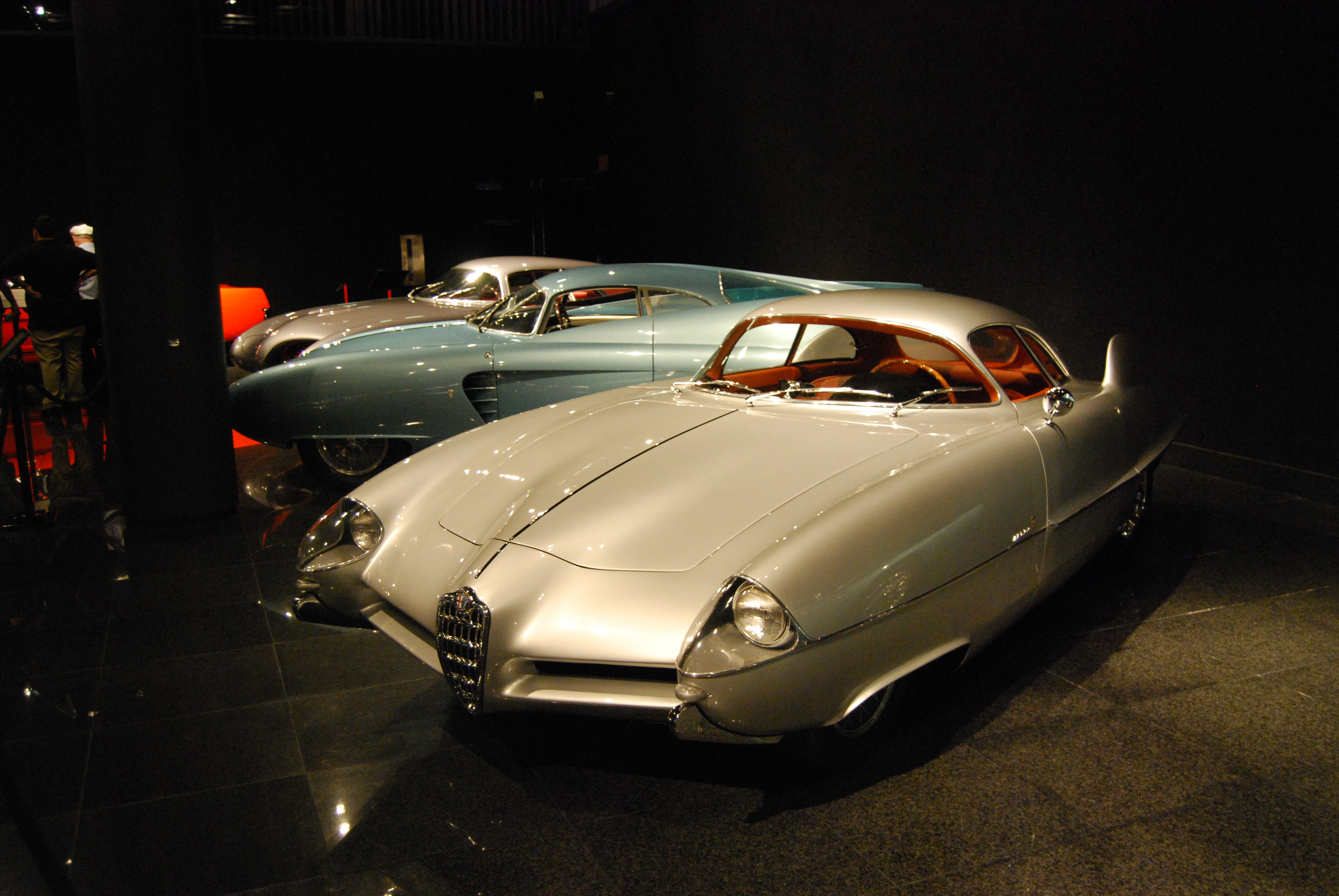 WOW. Three of 'em Batty batty batty! I always thought I'd have to go to Italy and look around a bit before I ever saw one of these... how cool is it to find three just a bit off highway 680??? DSC_0689